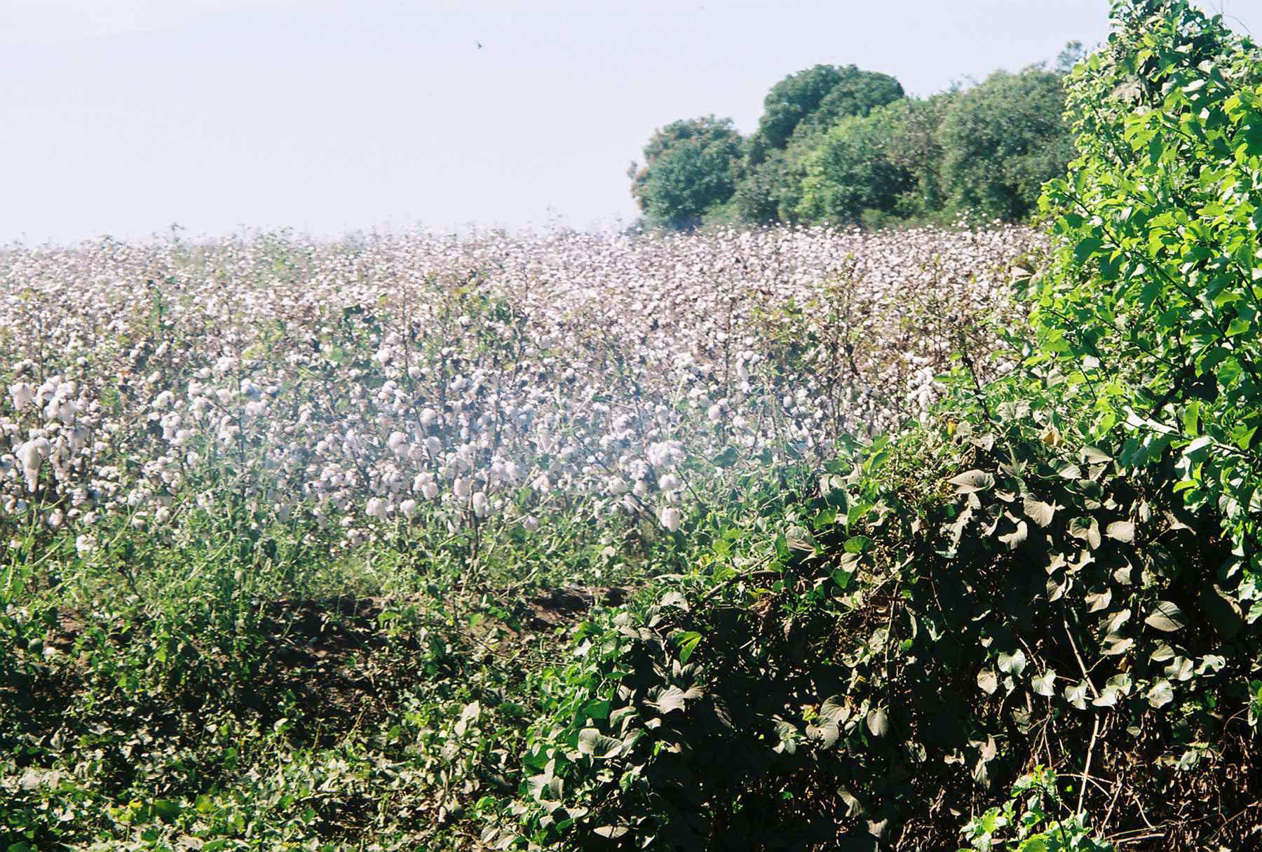 Cotton field in Usulután Province, El Salvador